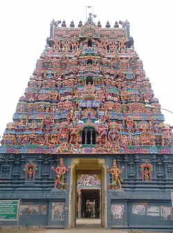 Kilvelurkediliyappartemple கீழ்வேளூர்கேடிலியப்பர்கோயில்